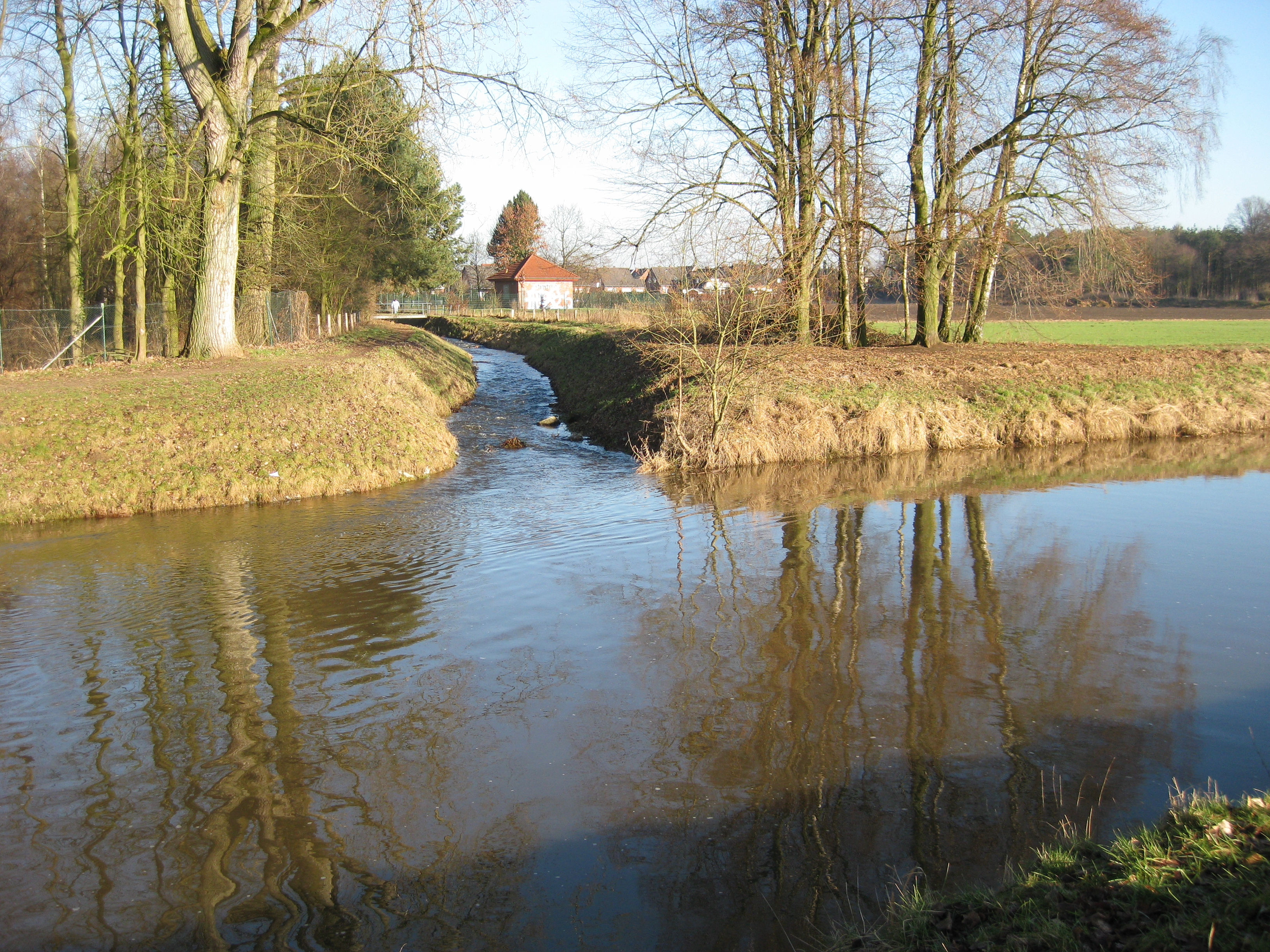 Mouth of the Loddenbach into the Ems near Harsewinkel-Greffen